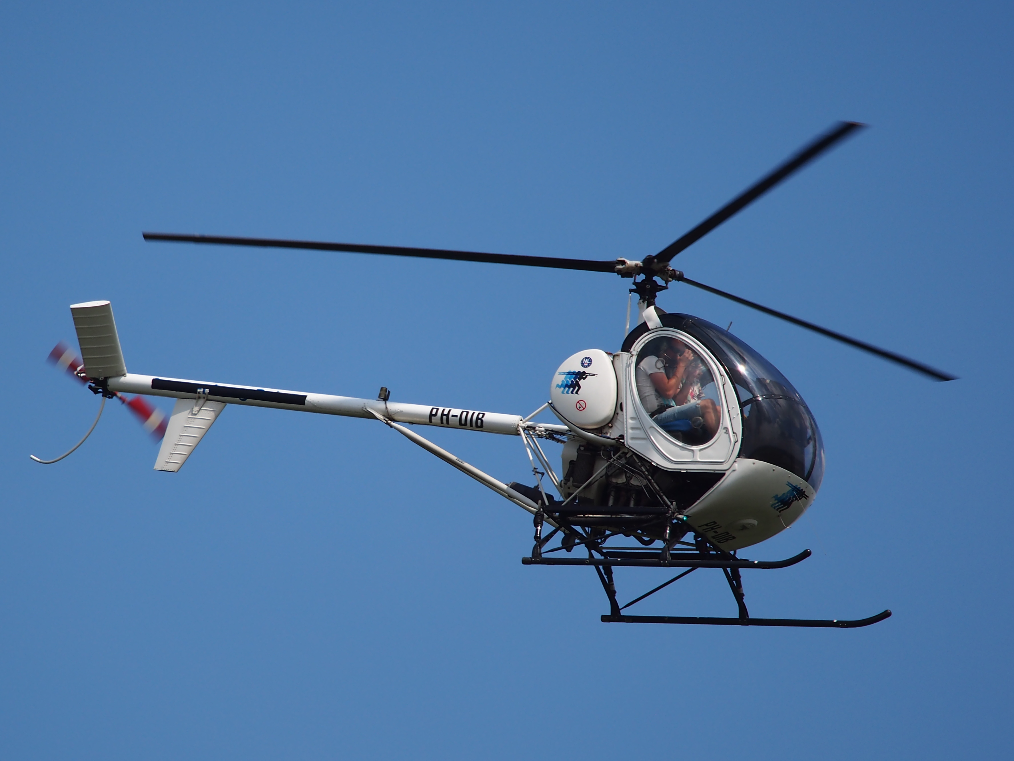 Photographed at Hilversum Airport (ICAO EHHV), The Netherlands.